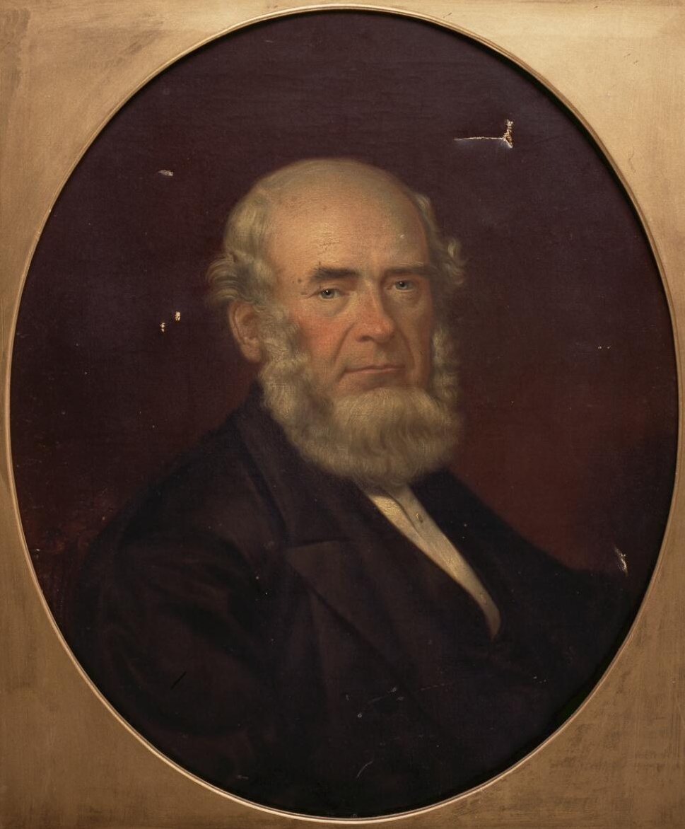 A painting from the Framed Works of Art collection at the National Library of wales.